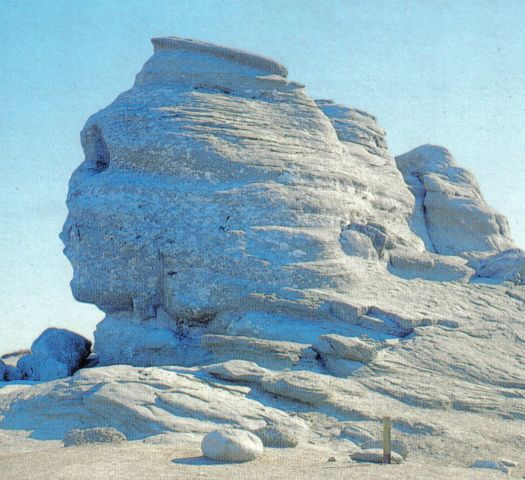 Raluca Stoica